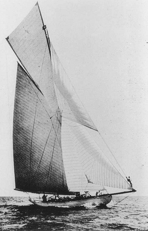 The Yacht Laurea during the races of the Olympic Games of 1900 off the coast of Le Havre (FRA). Helmed by Eduard Hore of Great Britain. Laurea competed in the 10 - 20 Ton class.